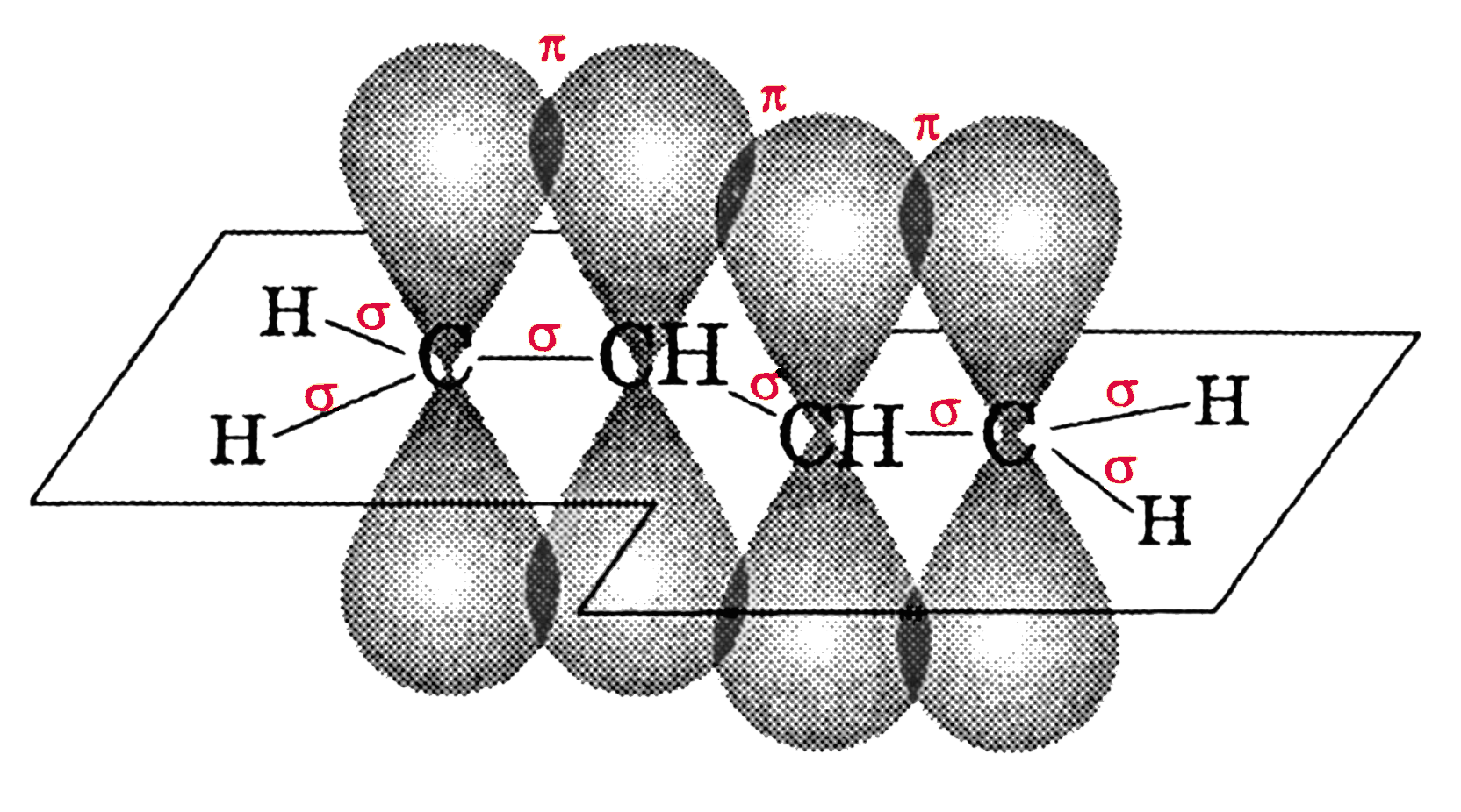 Buta-1,3-diene molecule structure. Carbon p-orbitals overlap illustration.